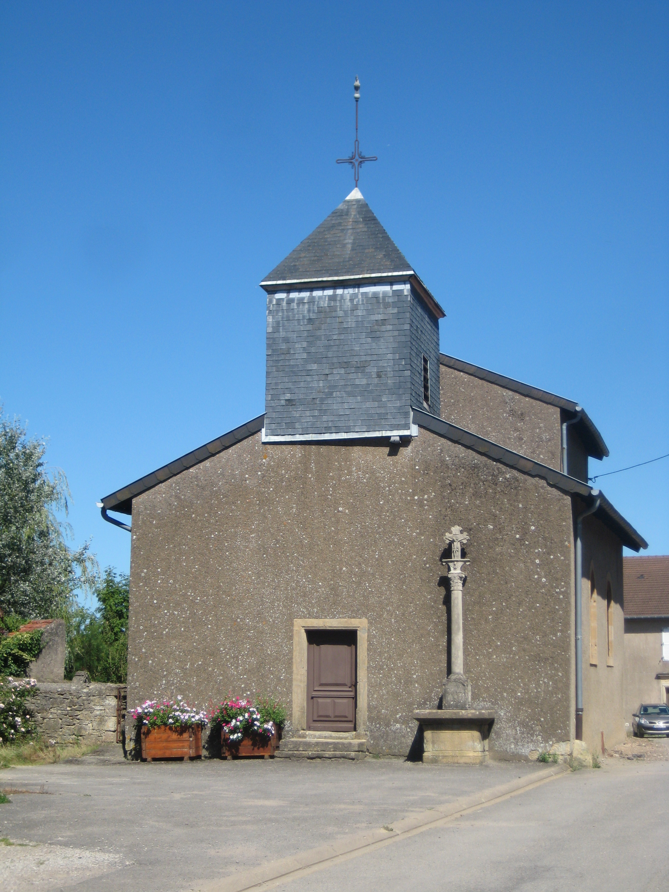 Description chapelle Bassompierre Date25 August 2011Sourcemon appareil photoAuthorAimelaimePermission(Reusing this file) chapelle Bassompierre